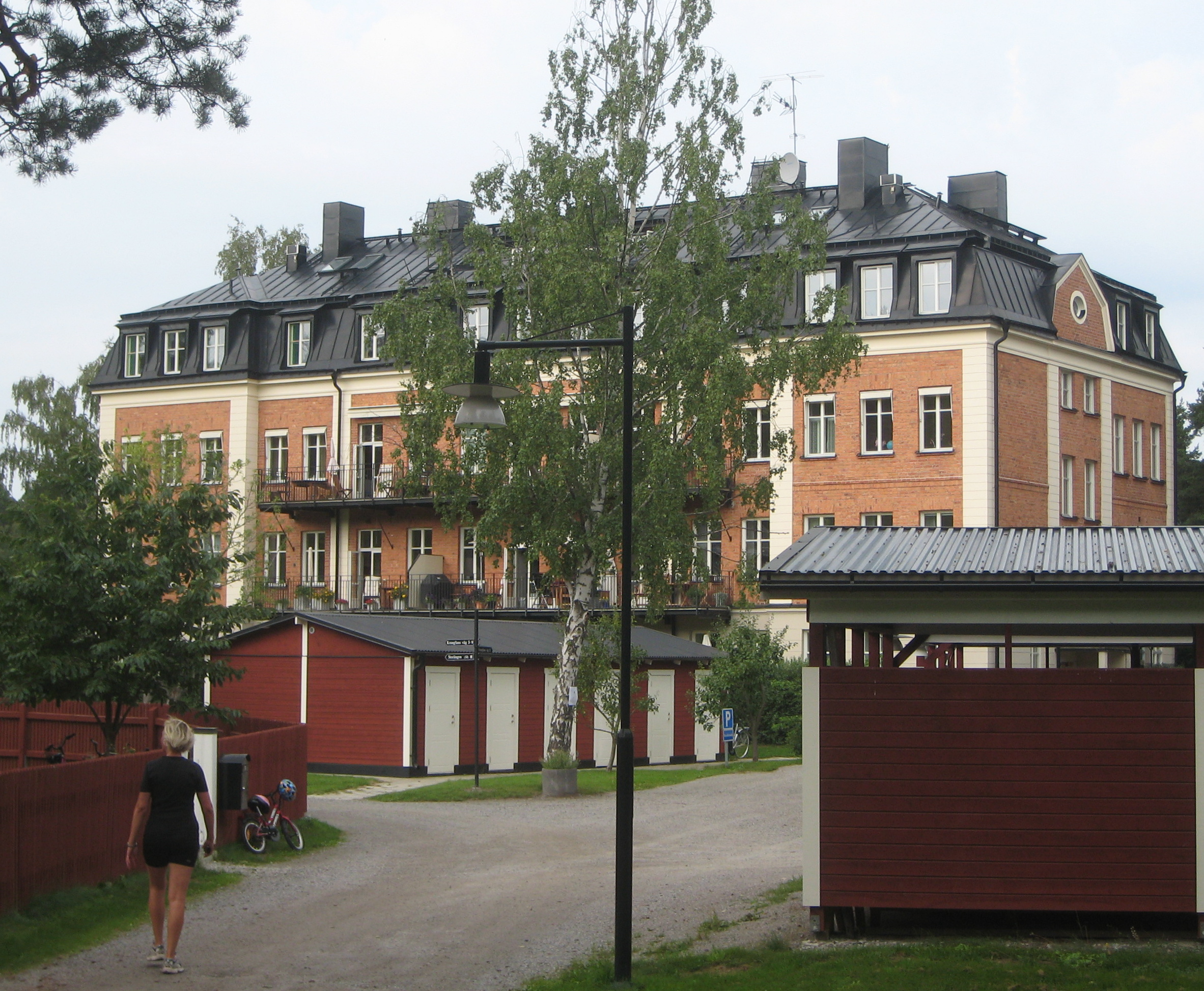 Kranglan 2010.